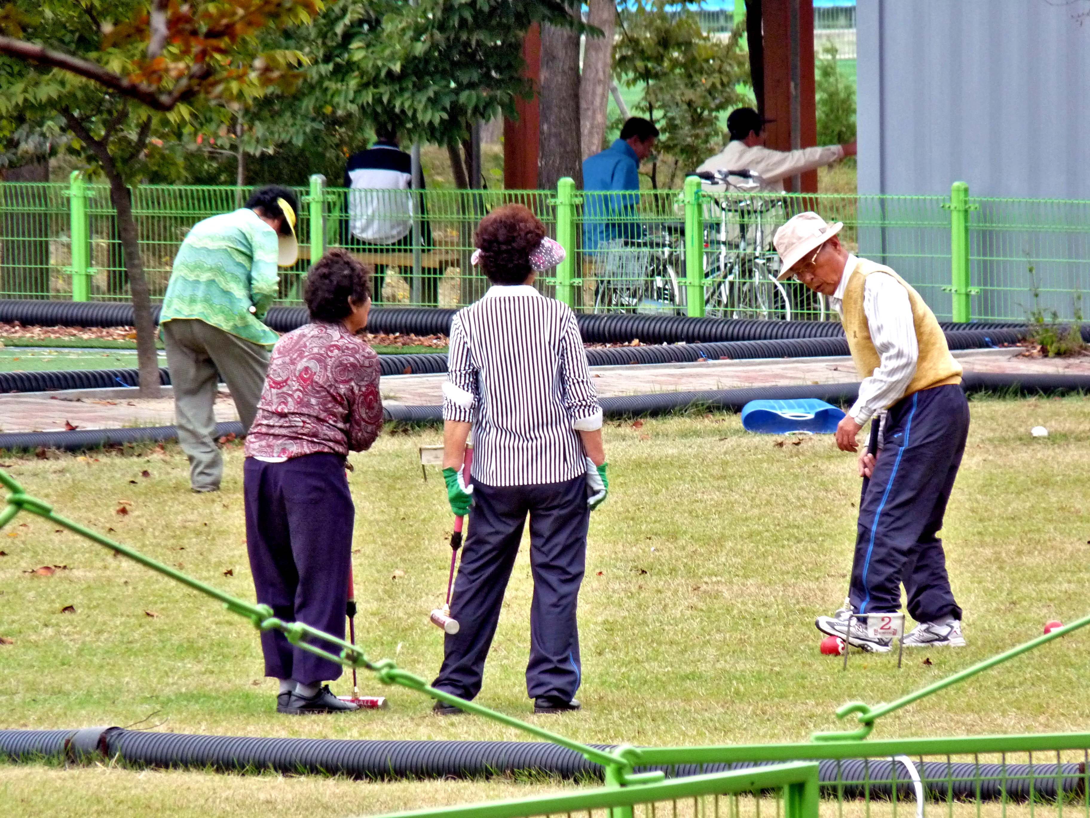 The 28th Gyeongju Citizens' Athletics Festival held in Hwangseong Park, Hwangseong-dong, Gyeongju, North Gyeongsang province, South Korea on October 10, 2008